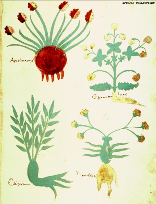 Four plants: Plant, top l., "Appolinaris" many linear leaves and flowering stems radiate from the upper part of a spherical bulb, each flower multi-lobed, and laterally symmetrical, pink on the l., white on the r. side, green with red root. Plant, top r., "Chamomeleon," perhaps (family Compositae, Carduus Tribe) Atractylis cancellata, Pine Thistle, three compound inflorescences branching from a vertical stem bearing pointed leaves and flowers, with two large leaves at base, green with yellow roots and yellow flowers. Plant, bottom l., "Sliatriceo" three straight, radiating stems, bearing alternate lancelate leaves, growing from thick root, green. Plant, bottom r., "Narcissus" (family Amaryllidaceae, sometimes combined with Liliaceae) Narcissus, sp., two radiating stems with three yellow flowers at tip, growing from a strange vase-shaped stem (?) with three linear leaves extending horizontally from each side, green with brown root. Adjacent text: Italian herbal.